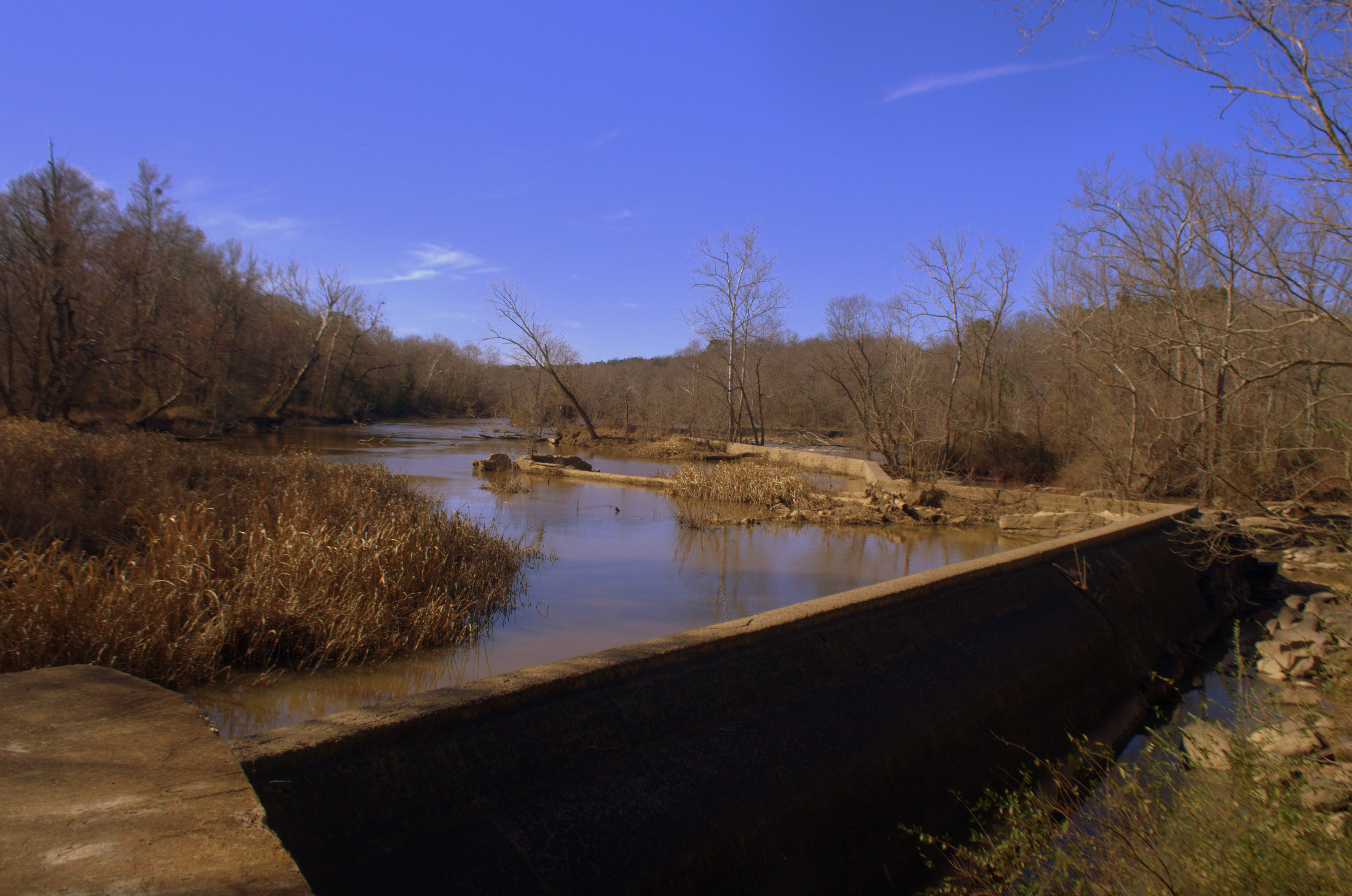 The Appomattox Canal Dam supplies the water for the Upper Appomattox Canal.